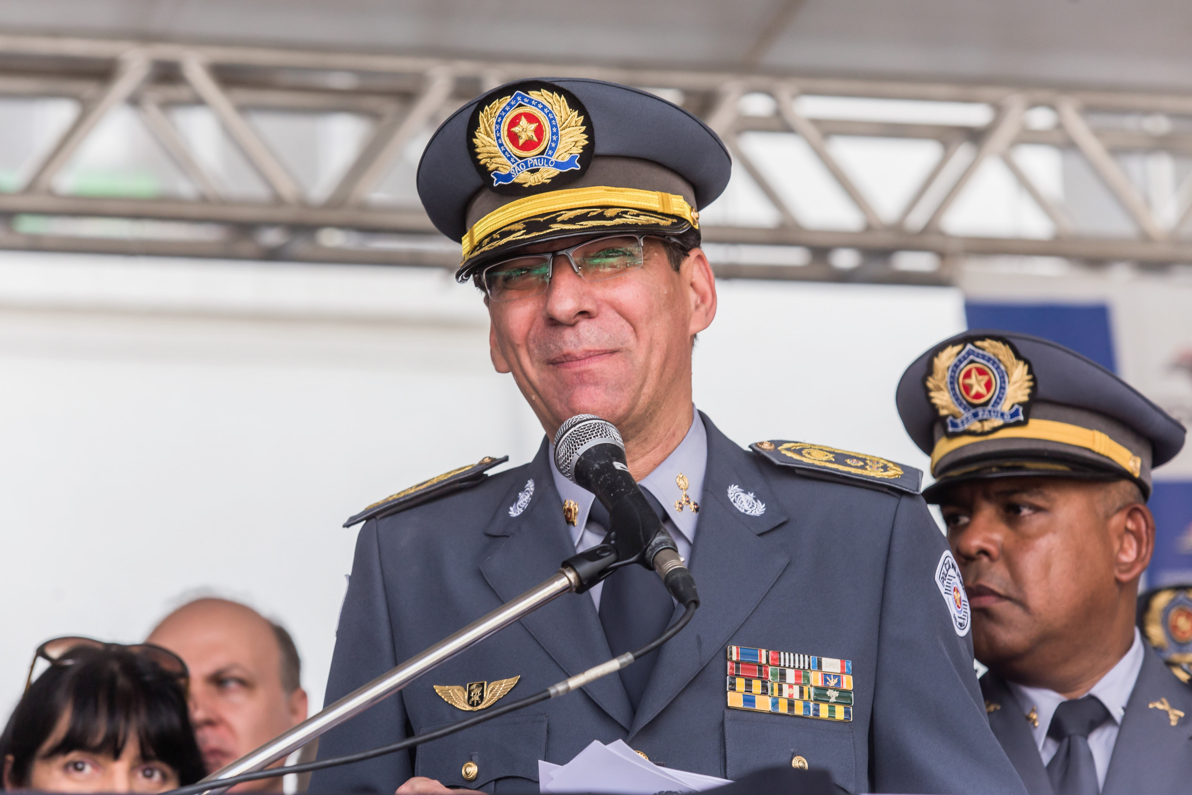 O Governador do Estado de São Paulo Dr. Geraldo Alckmin, participou da Cerimônia de Passagem de Comando da Polícia Militar do Estado de São Paulo ao Coronel PM Nivaldo César Restivo, na Academia de Polícia Militar do Barro Branco. Local: São Paulo/SP. Data: 17/03/2017. Foto: Alexandre Carvalho/A2img